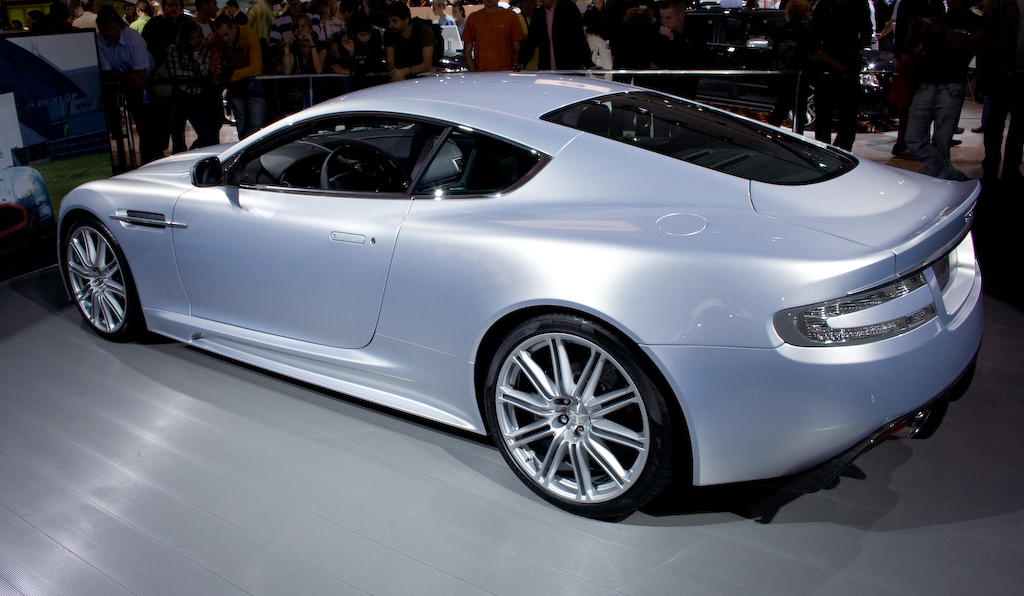 A silver Aston Martin DBS coupé, photographed during the IAA 2007.Aston Martin DBS